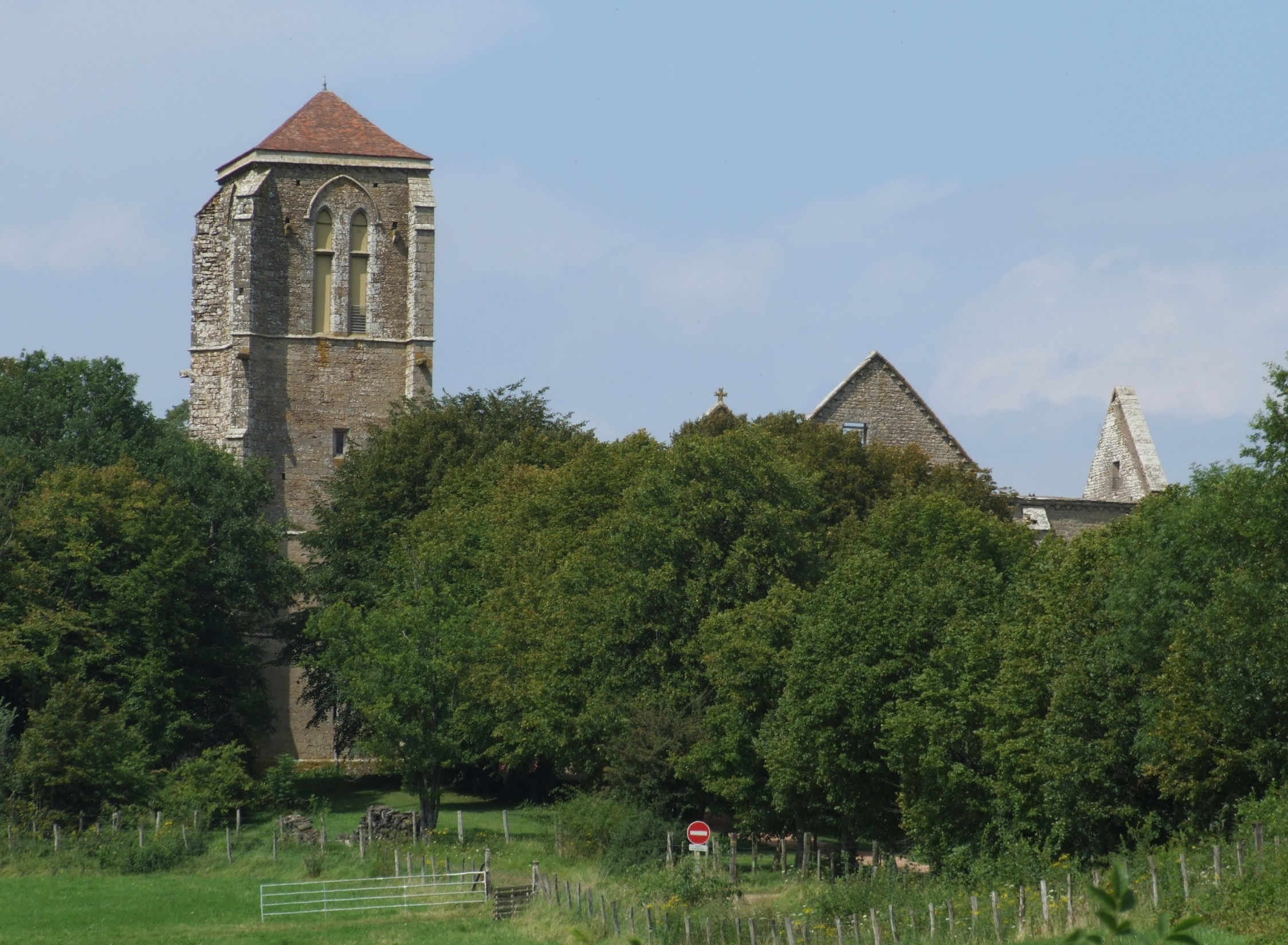 Vic-sous-Thil, Burgundy, FRANCE